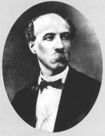 Italian politician Francesco Crispi (1818-1901)